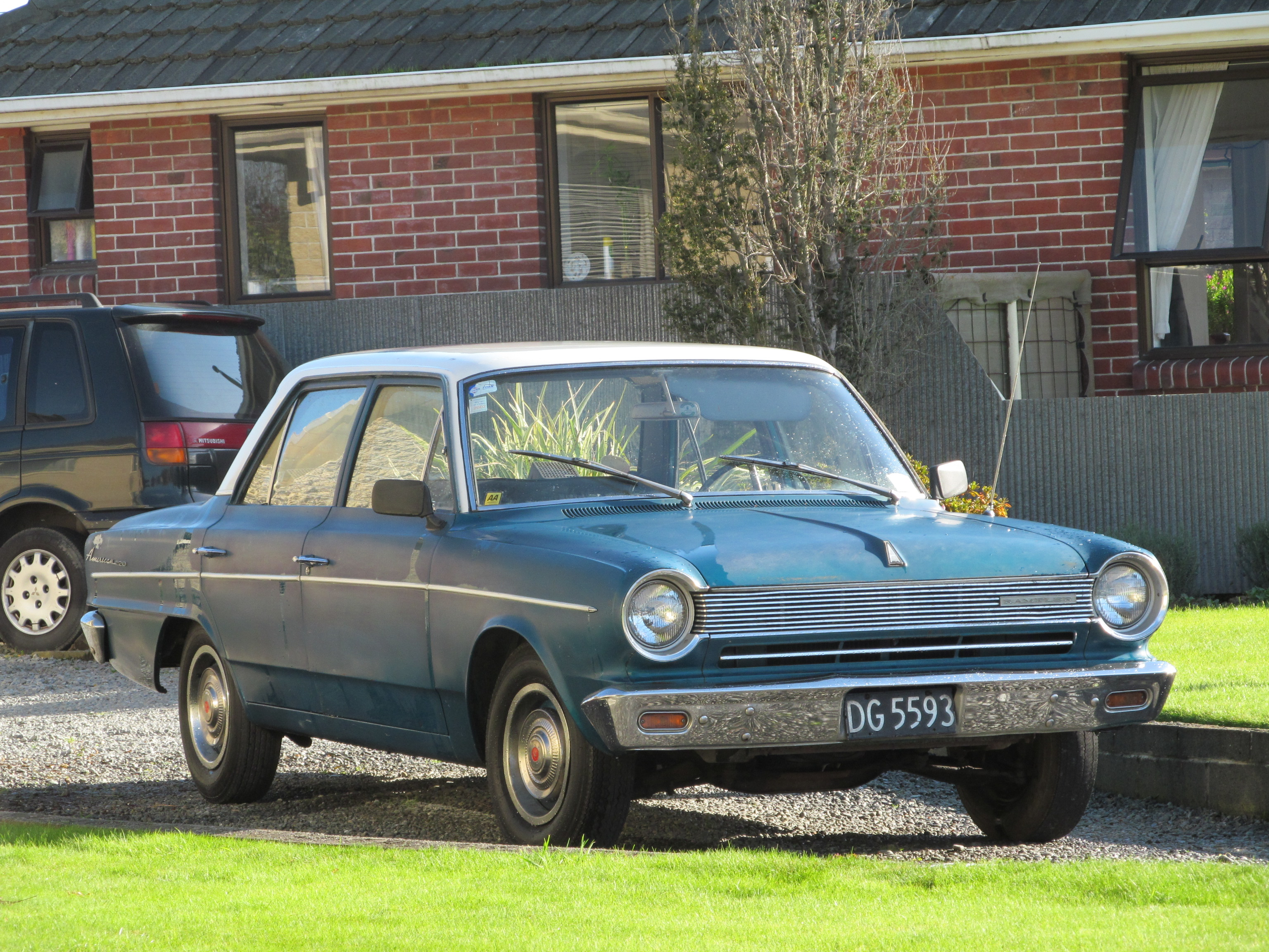 I count this as one of my best finds this year so far! This car has been in NZ since 1968, and is more or less totally original. I wonder how something as obscure as this ended up here.